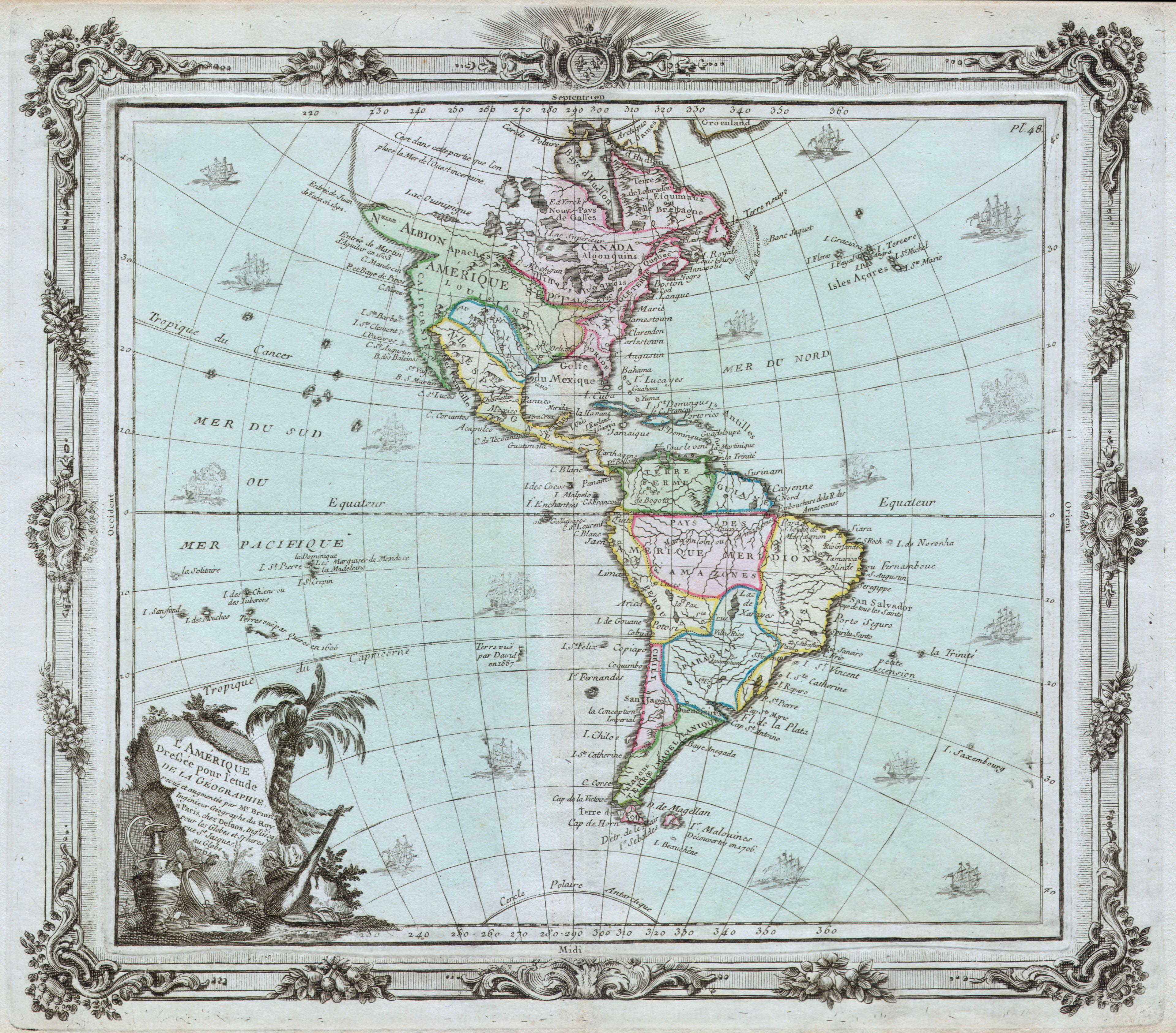 This is a rare and elegantly produced 1764 map of the Americas by French cartographer Louis Brion de la Tour. Depicts the whole of North and South America with several interesting cartographic features. The American northwest is largely ill defined though highly suggestive of the French conception of a water route through North America. Notations indicate a great “Sea of the West” but the exact location of this is left undefined. The region of the Apache American Indian tribe is noted. In South America, Bogata is located in “Terre Ferme” and some early colonial cities such as Cuzco, Lima, and La Paz are noted. Sixteen sailing ships decorate the oceans. There is a beautiful and elaborate decorative border, as well as a decorative title cartouche. Unlike most maps from this series, the upper border is not cropped.